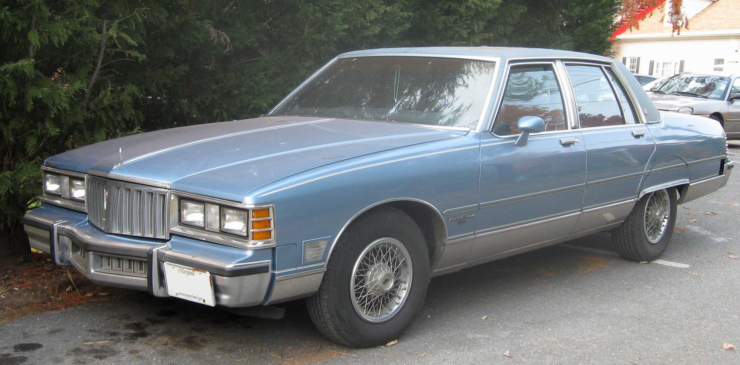 1977-1981 Pontiac Bonneville photographed in Olney, Maryland, USA.